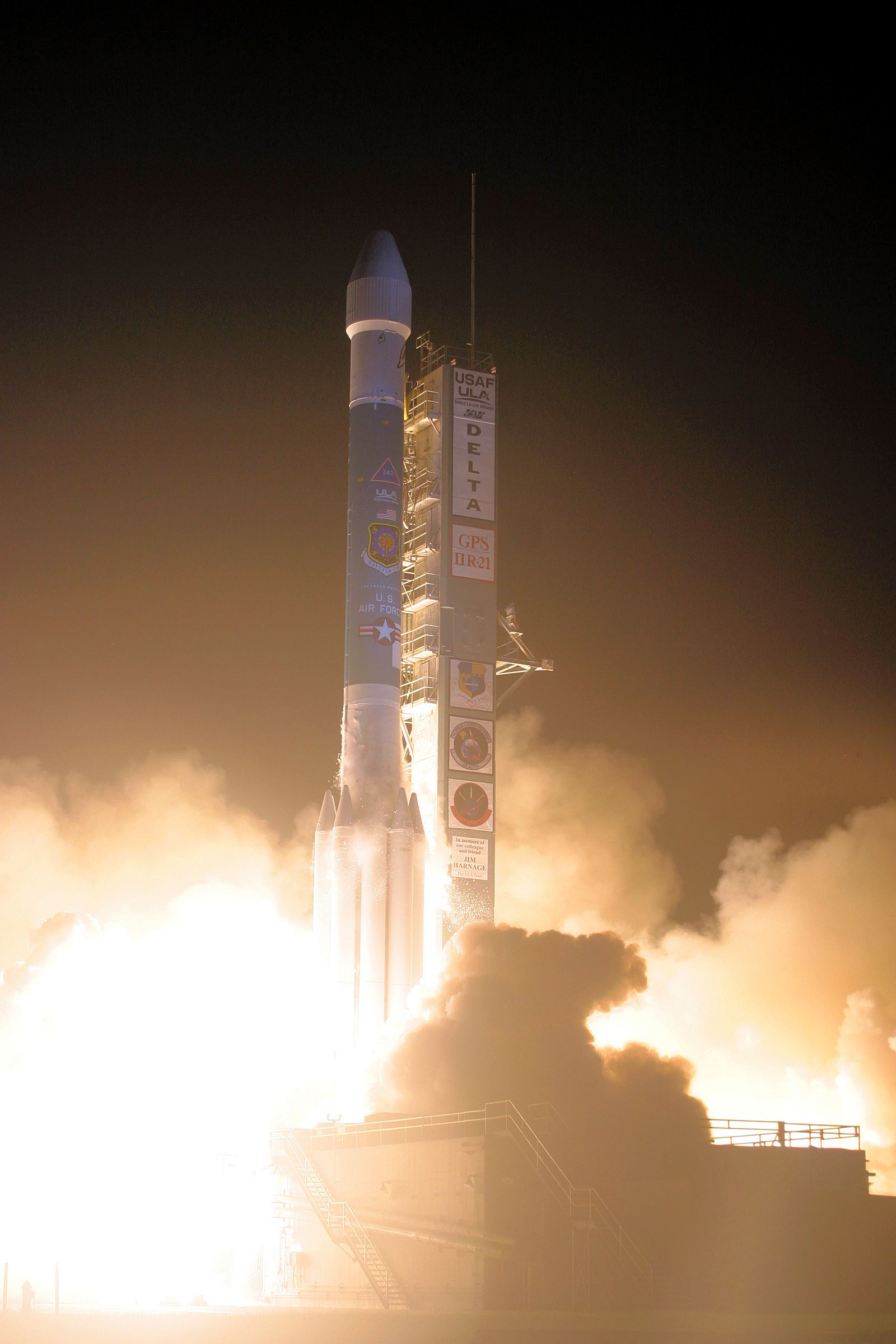 A United Launch Alliance Delta II rocket blasts off with the Air Force’s Global Positioning System IIR-21 satellite from Space Launch Complex-17A at 6:35 a.m. EDT today. This was the 48th successful and last in a series of GPS launches on a Delta II rocket ending an era that began in February 1989. During that time, the Delta II/GPS tandem boasted a 98 percent mission success rate. (Photo by Carleton Bailie, United Launch Alliance)